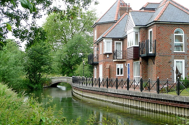 The Holy Brook, an ancient but probably man made channel of the River Kennet at Coley Park Farm, Reading, Berkshire, England. For more information see the Wikipedia article Holy Brook.